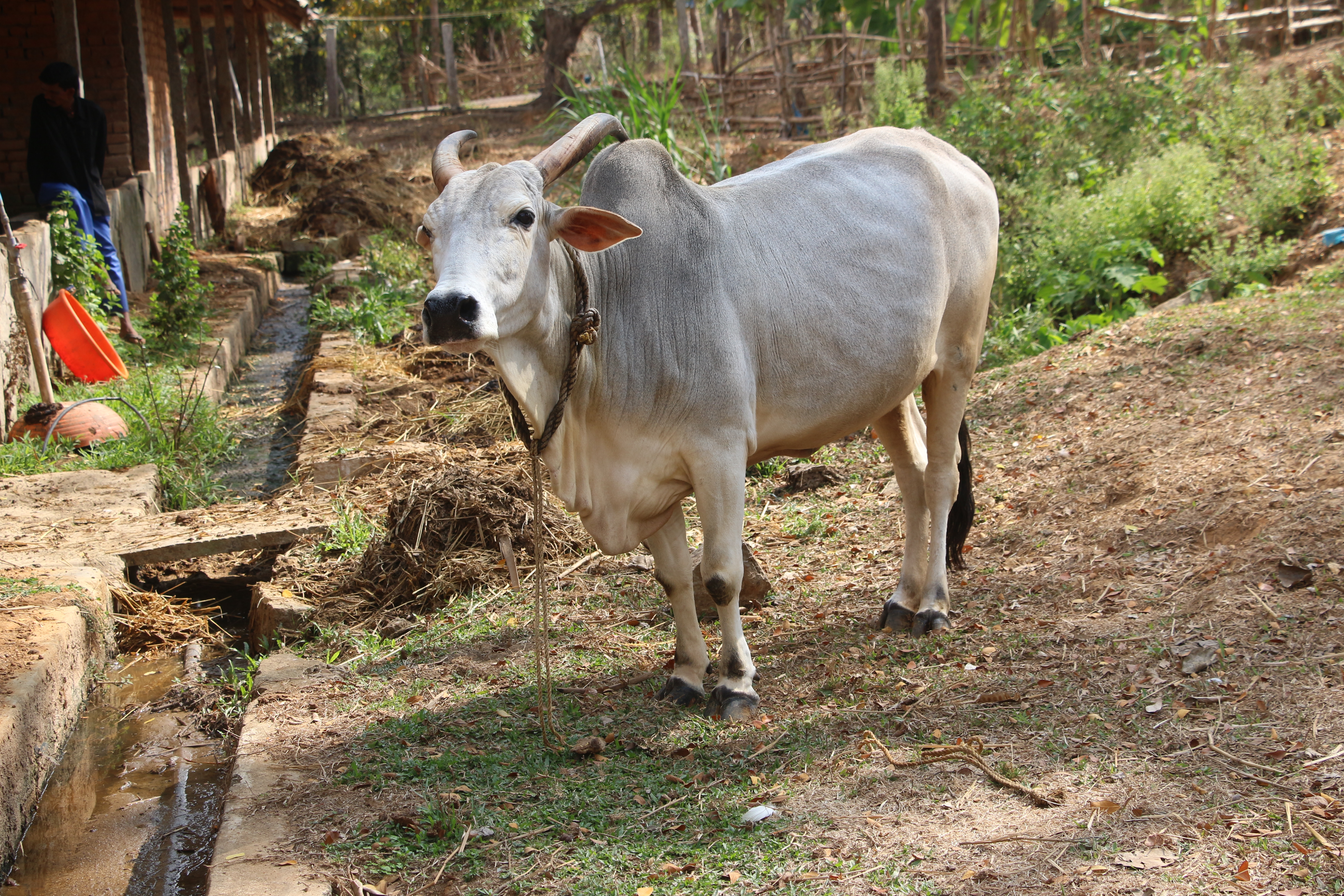 Indian cow breed Krishnaಕನ್ನಡ: ಭಾರತೀಯ ಗೋತಳಿ ಕೃಷ್ಣ